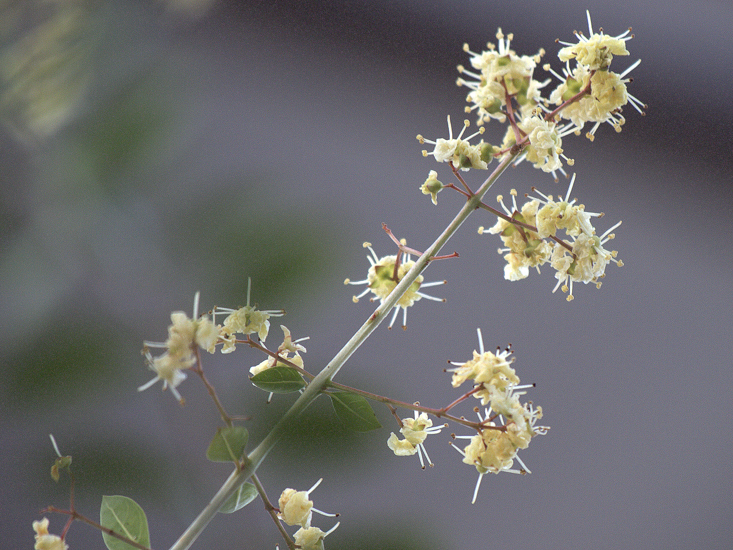 The flower of Lawsonia inermis (Inai) in Malaysia